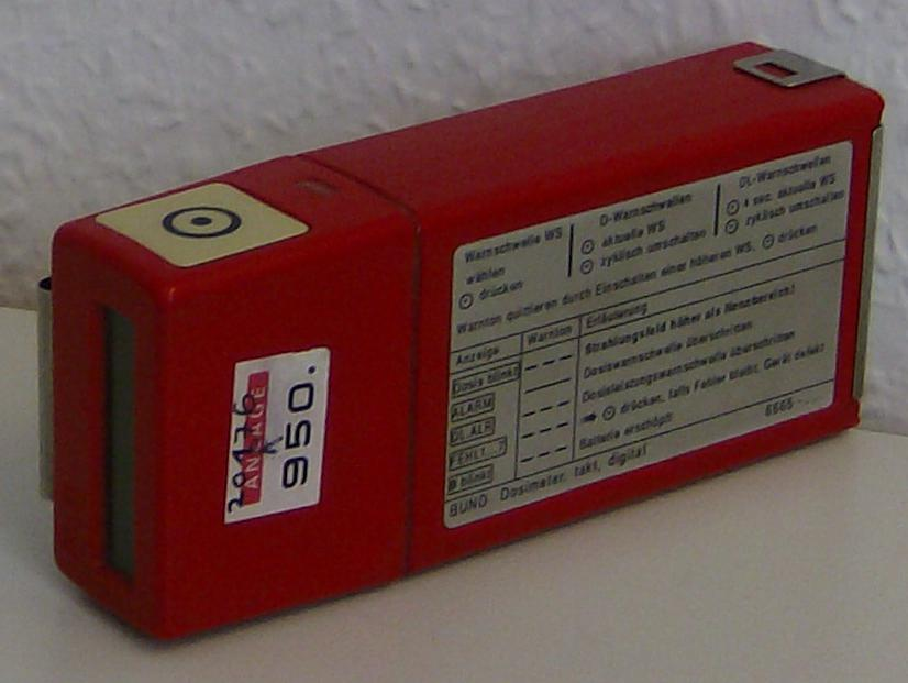 Dosimeter FH41Z taktical digital for Warndienst and firefighter ABC-Groups